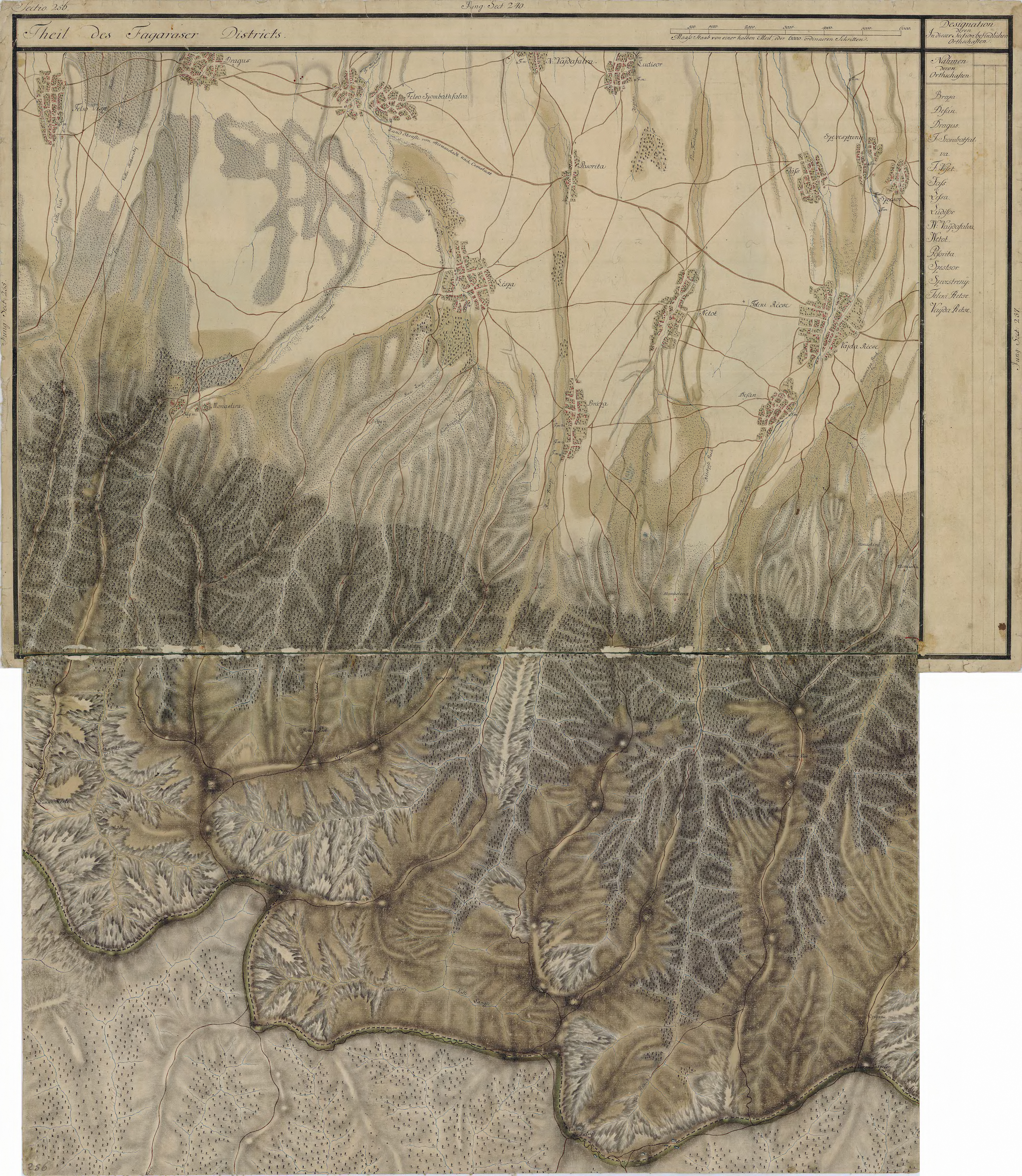 Grand Duchy of Transylvania, 1769-1773. Josephinische Landaufnahme pg.256